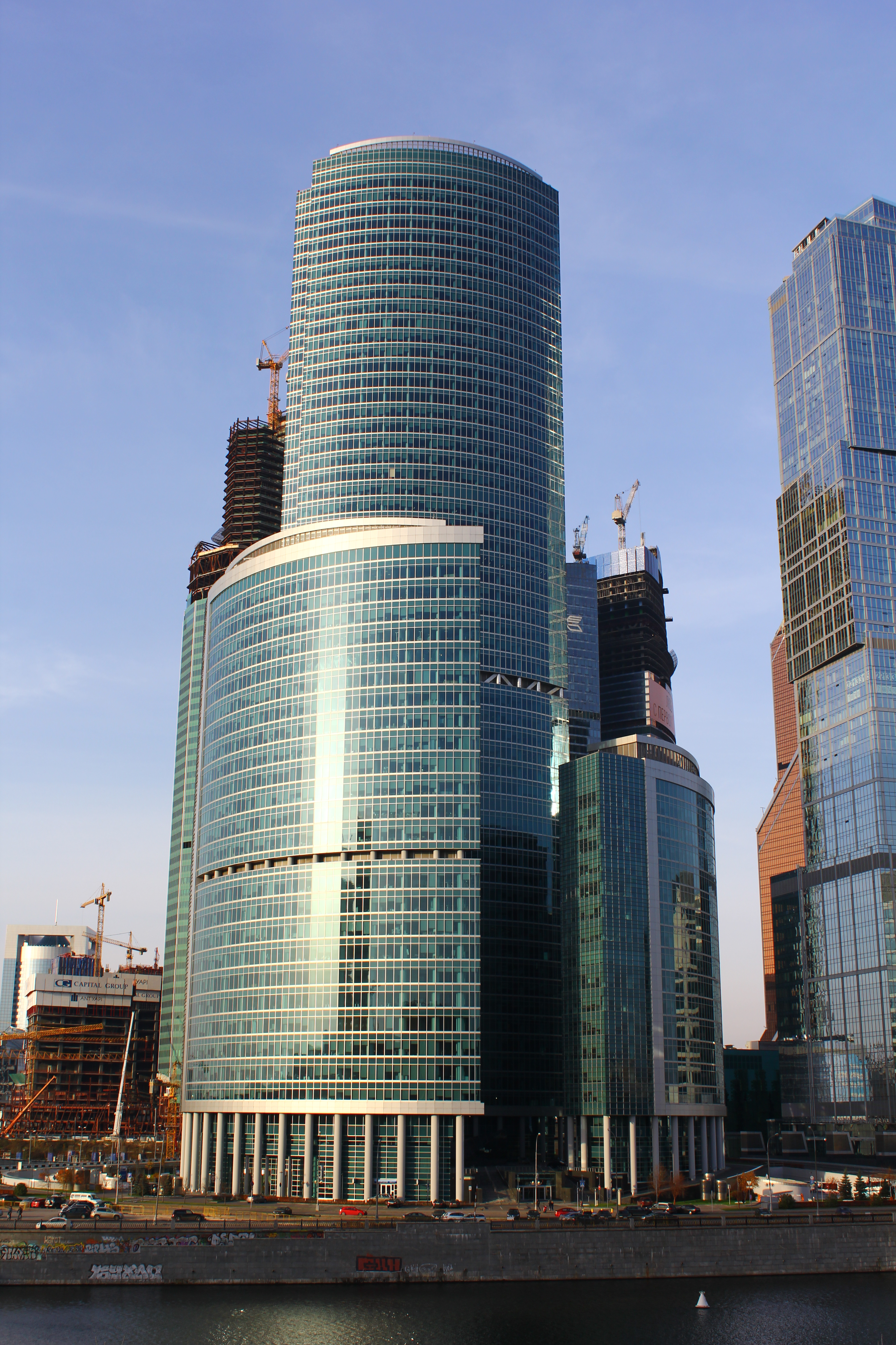 Naberezhnaya Tower 20th October 2012